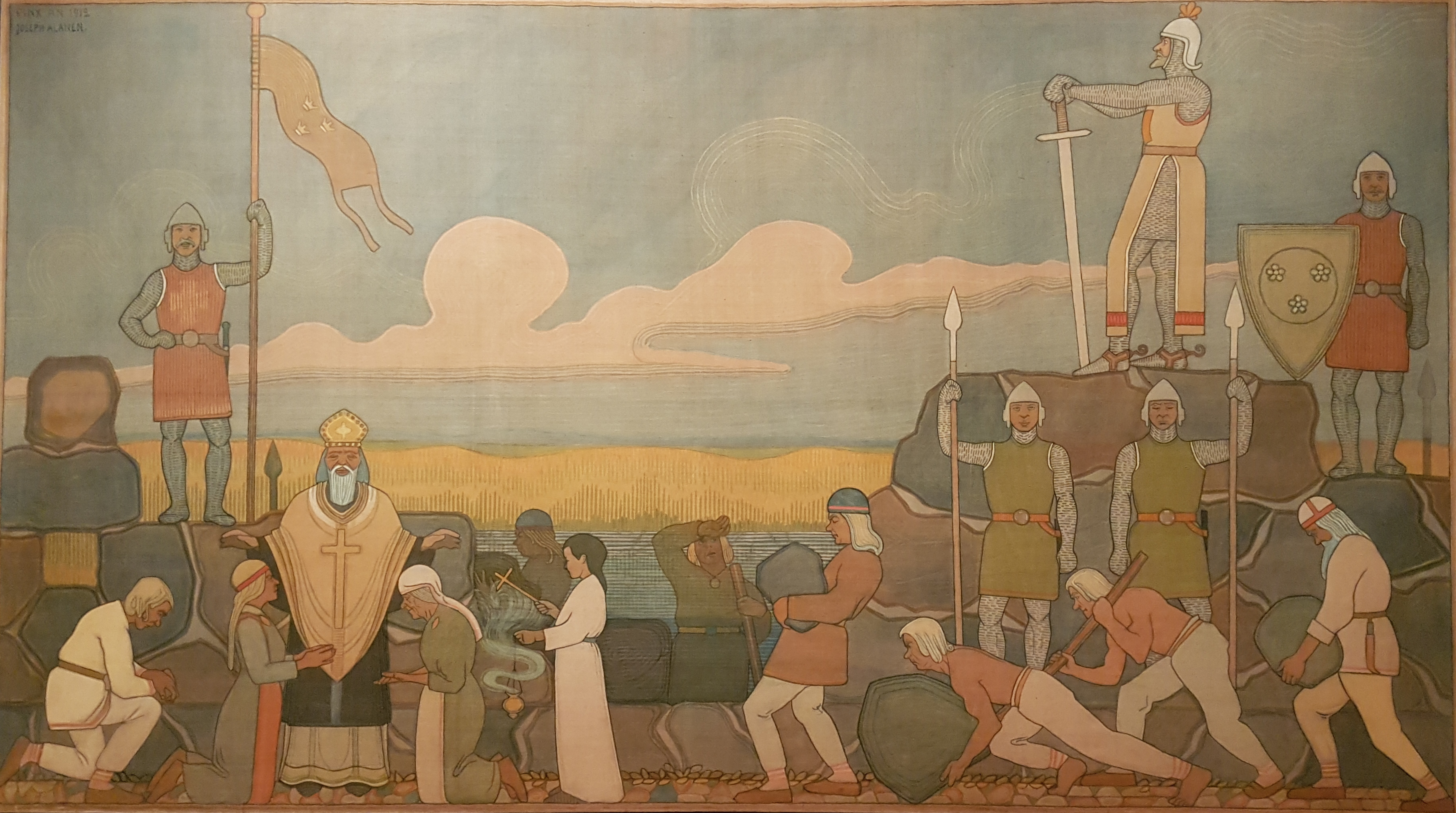 Sort of an imagery collage of Birger Jarl conquering Häme and the construction of Häme Castle. On the left there is a Christian Bishop.